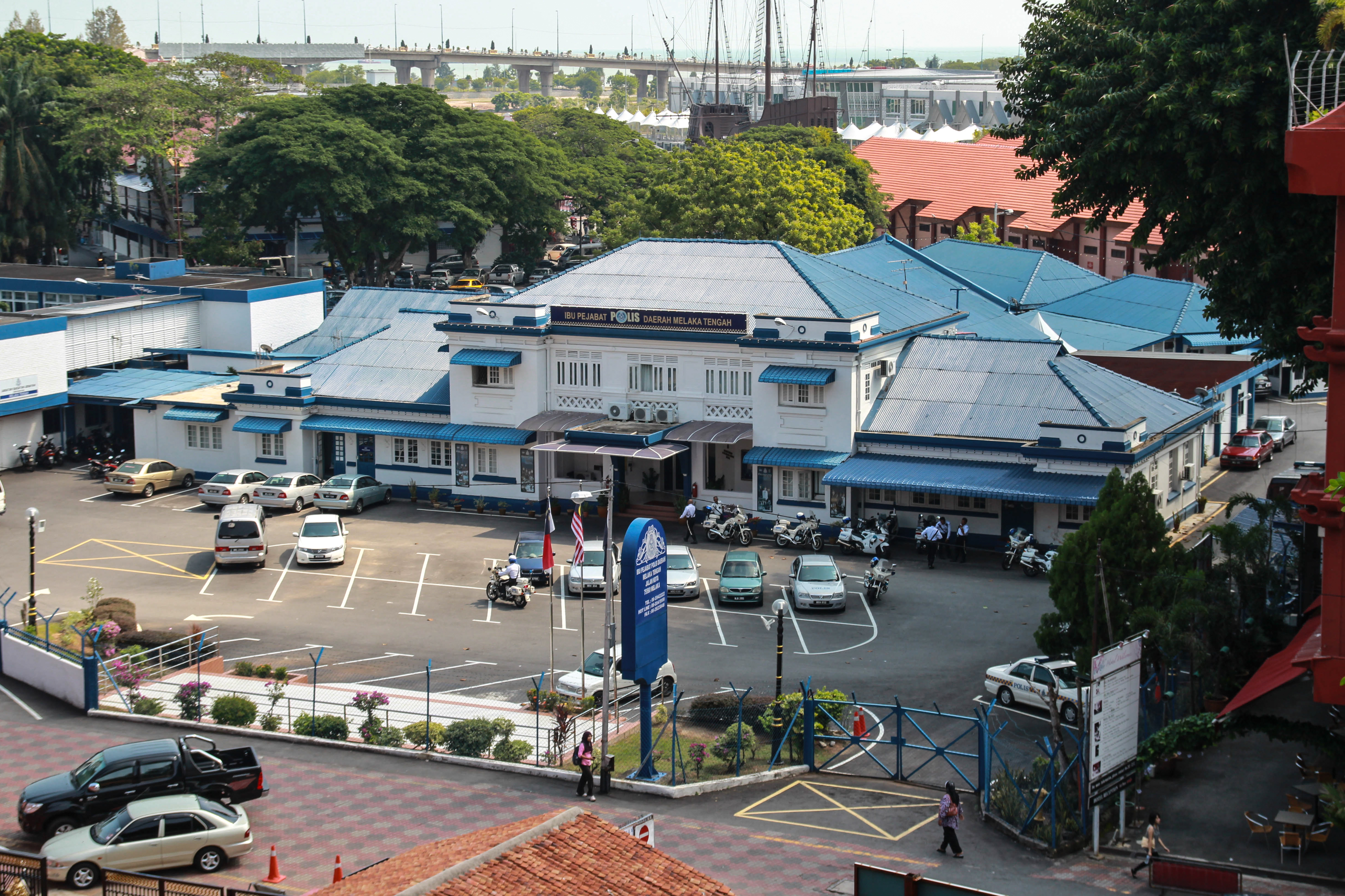 Melakka